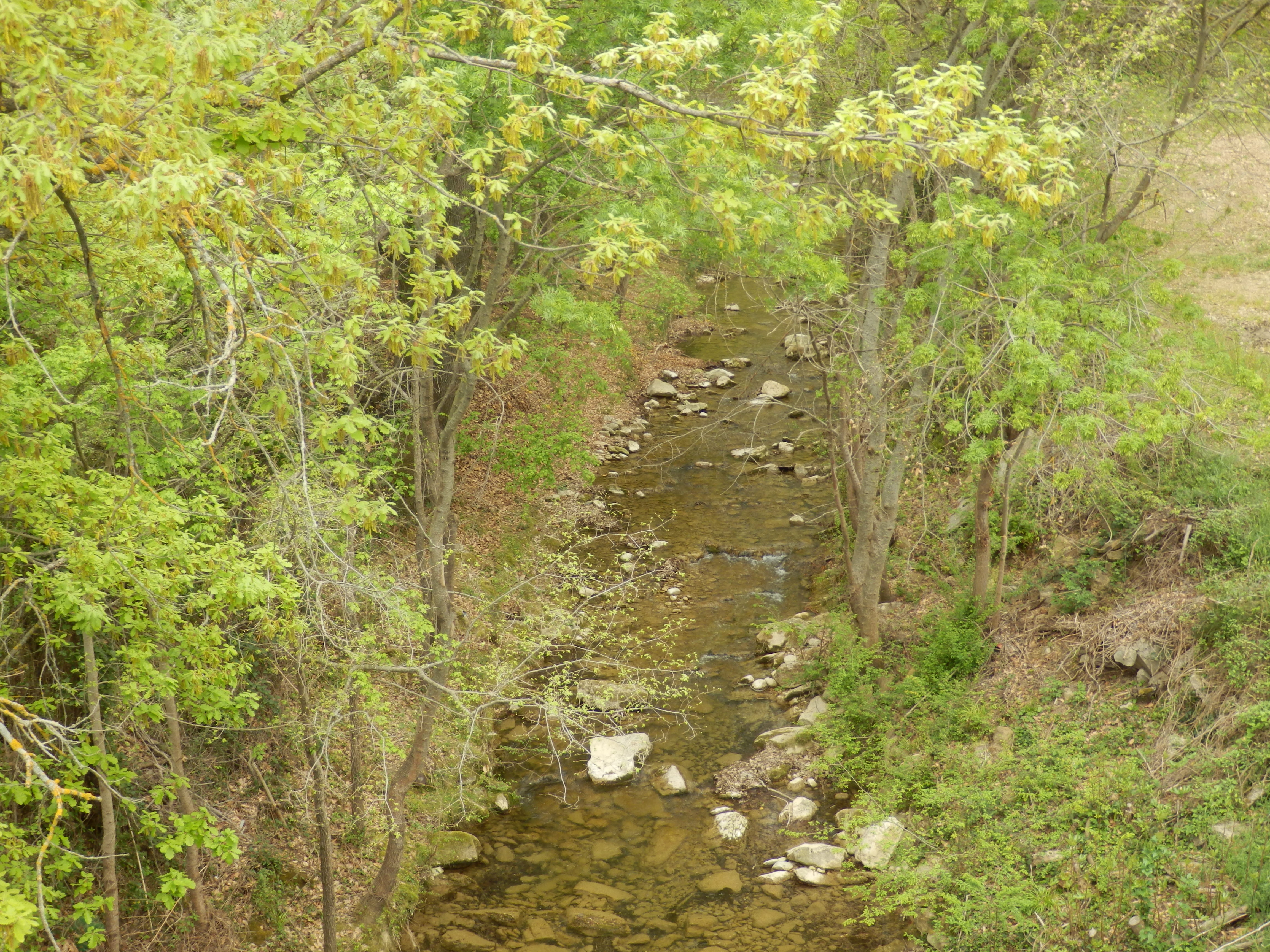 Corneilla river in Magrie, Aude, France